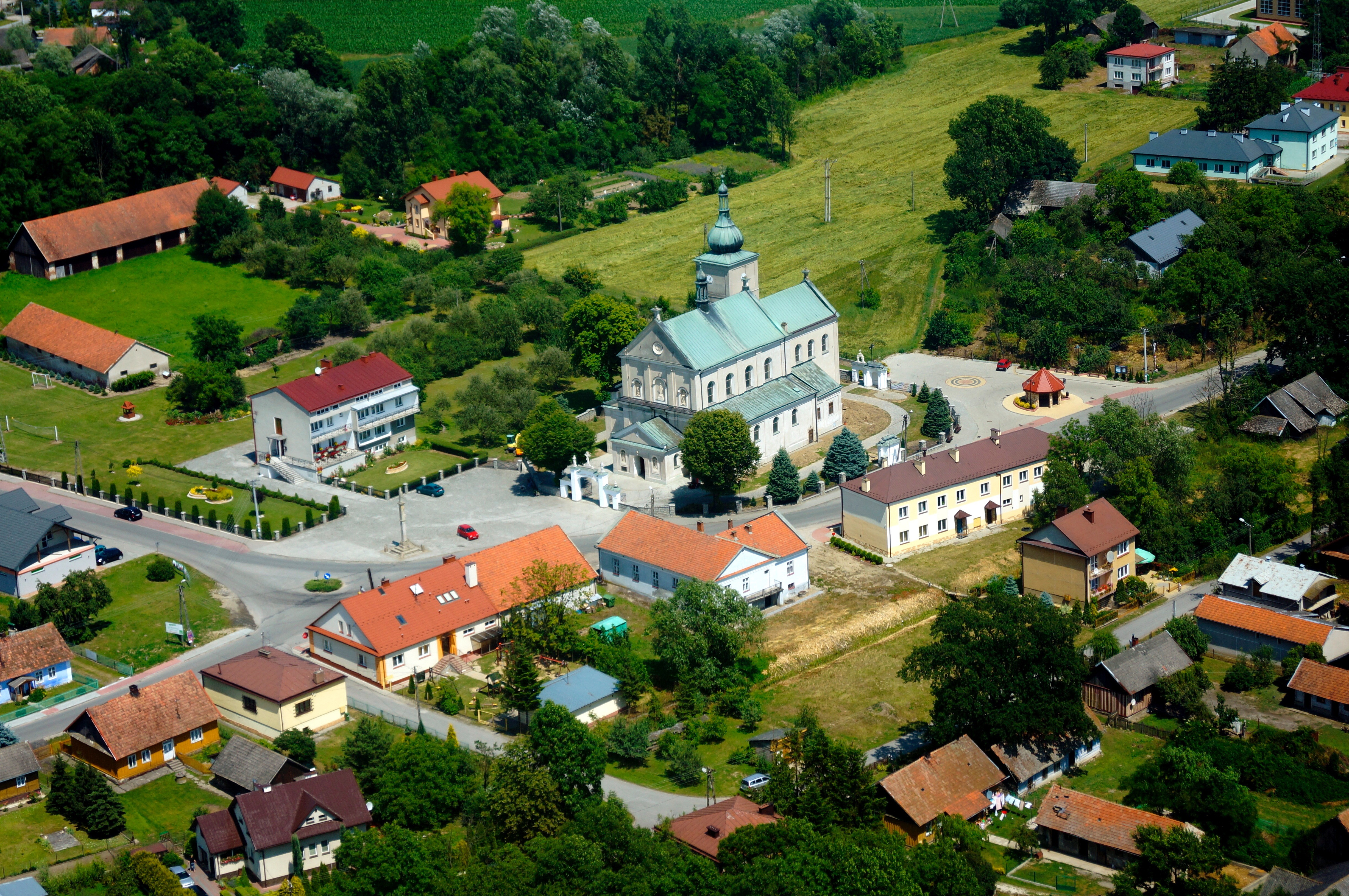 Gręboszów, center